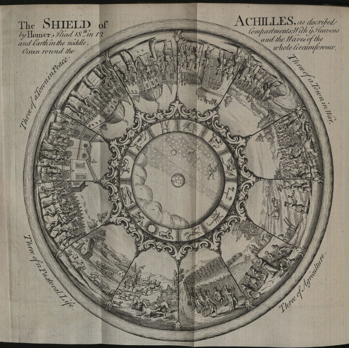 The images of Achilles' Shield below are from an engraving which appeared in the September 1749 issue of A Gentleman's Magazine, opposite Alexander Pope's rendition of Homer's description of the shield. An earlier version of essentially the same engraving appeared as a foldout in volume 5 of the second edition of Pope's The Iliad of Homer, (London, 1720). Neither publication identified the artist.